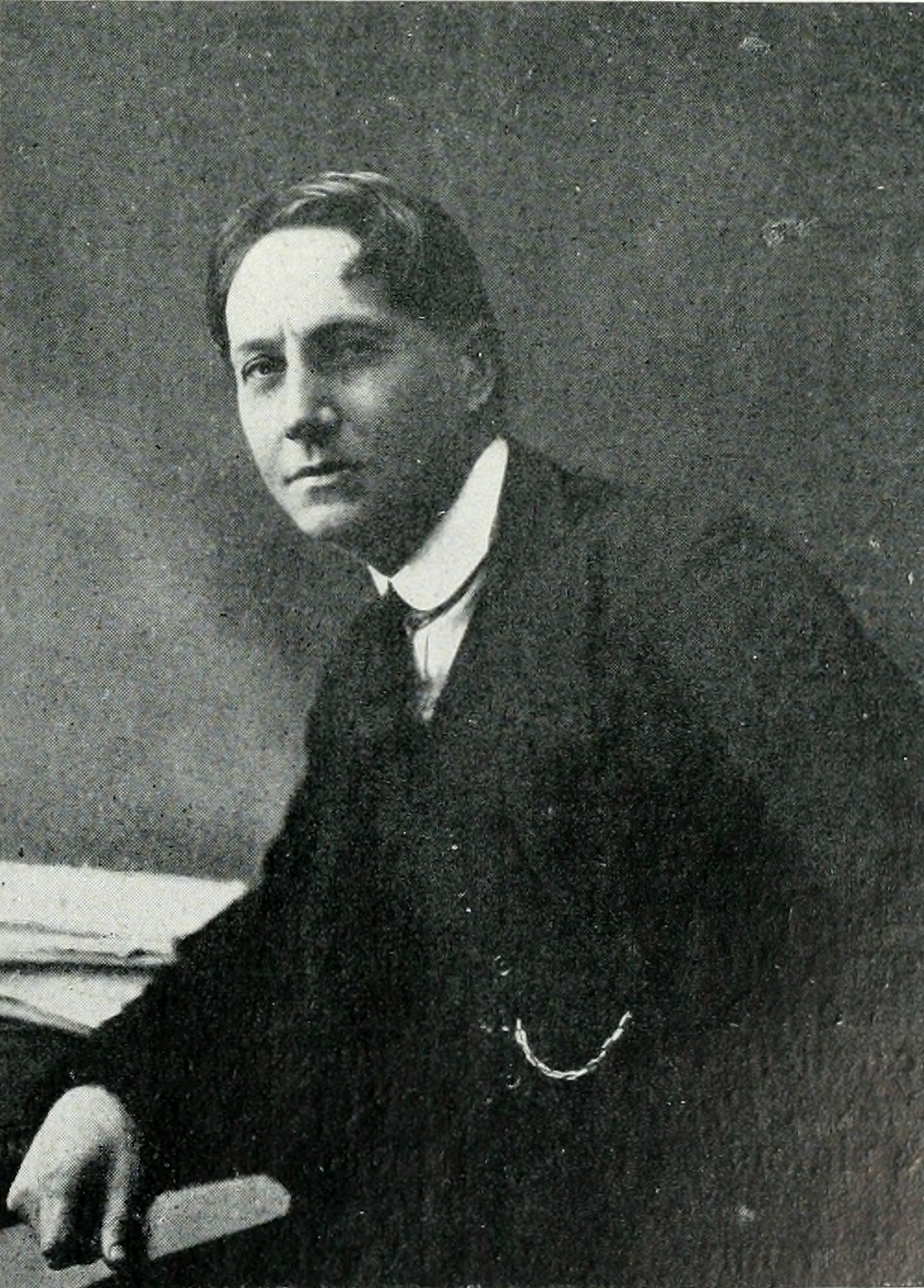 Description: Photograph of Franco Alfano (1875 – 1954) Date: circa 1919 Photographer: Unknown Published in: Emporium, Volume: 49 No. 10, p. 129, Bergamo: Istituto italiano d'arti grafiche Publication date: 1919